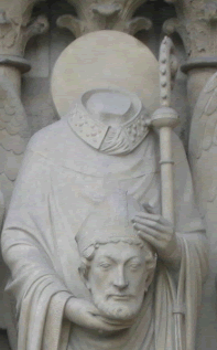 Cathédrale Notre-Dame de Paris: portail de gauche